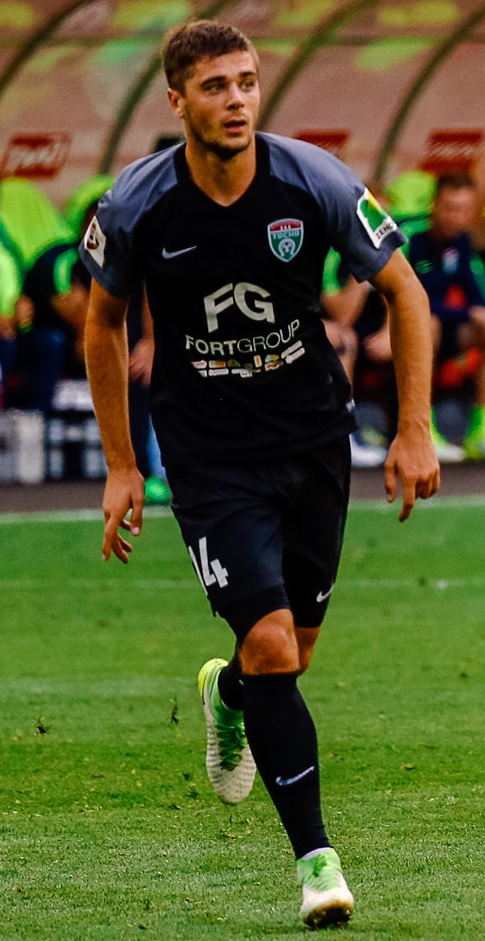 Alyaksandr Karnitsky with FC Tosno in a game against FC Lokomotiv Moscow.